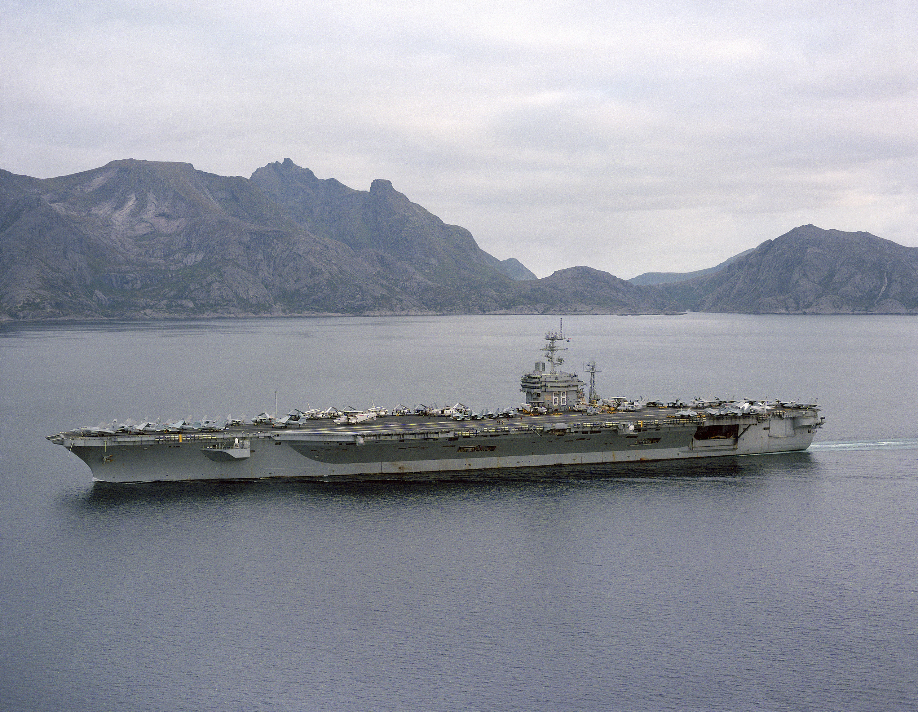 A port bow view of the nuclear-powered aircraft carrier USS NIMITZ (CVN 68) underway off the coast of Norway during NATO Exercise NORTHERN WEDDING '86.